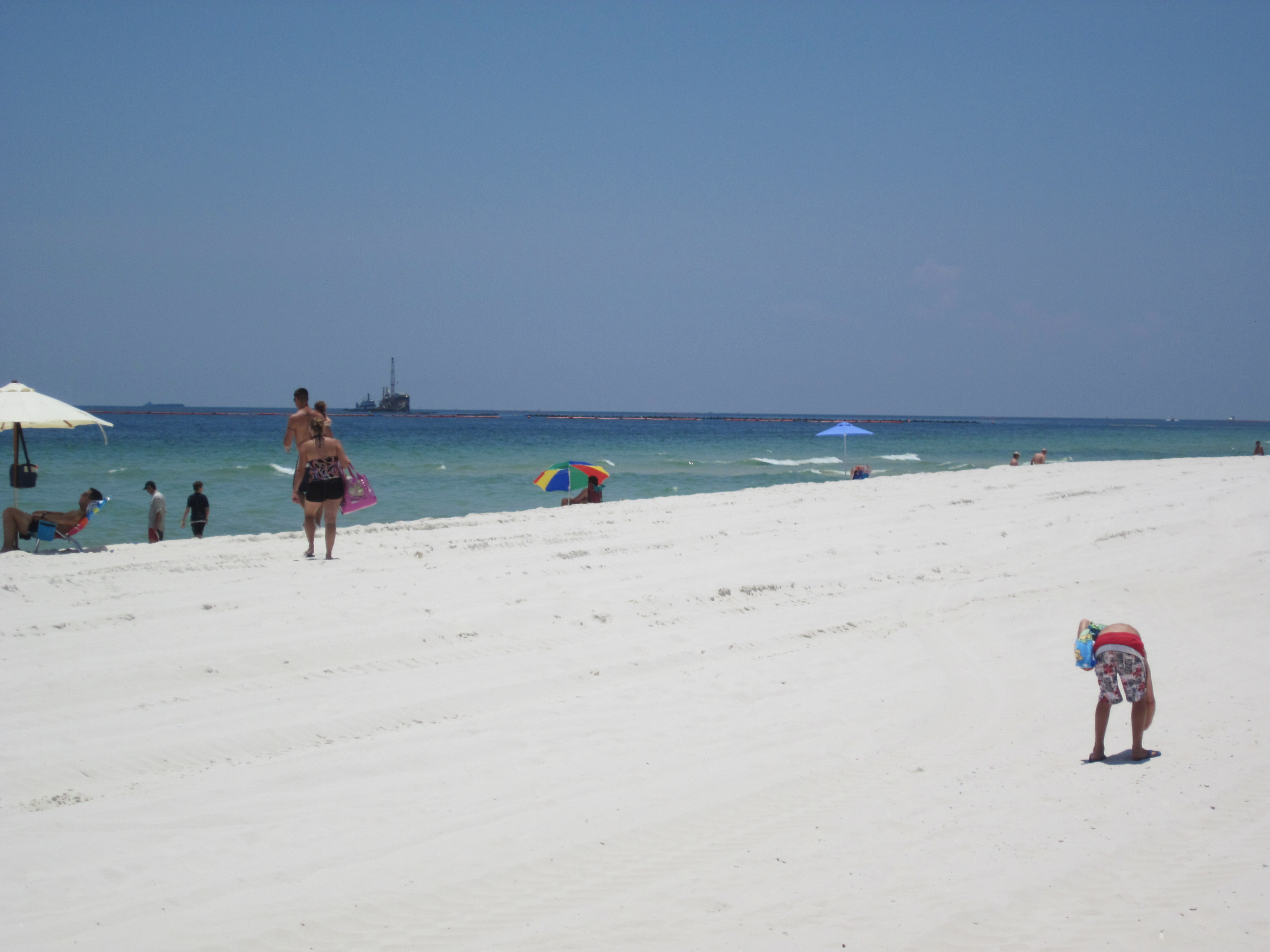 Orange Beach, Alabama Beach with booms for the BP Deepwater Horizon oil spill.